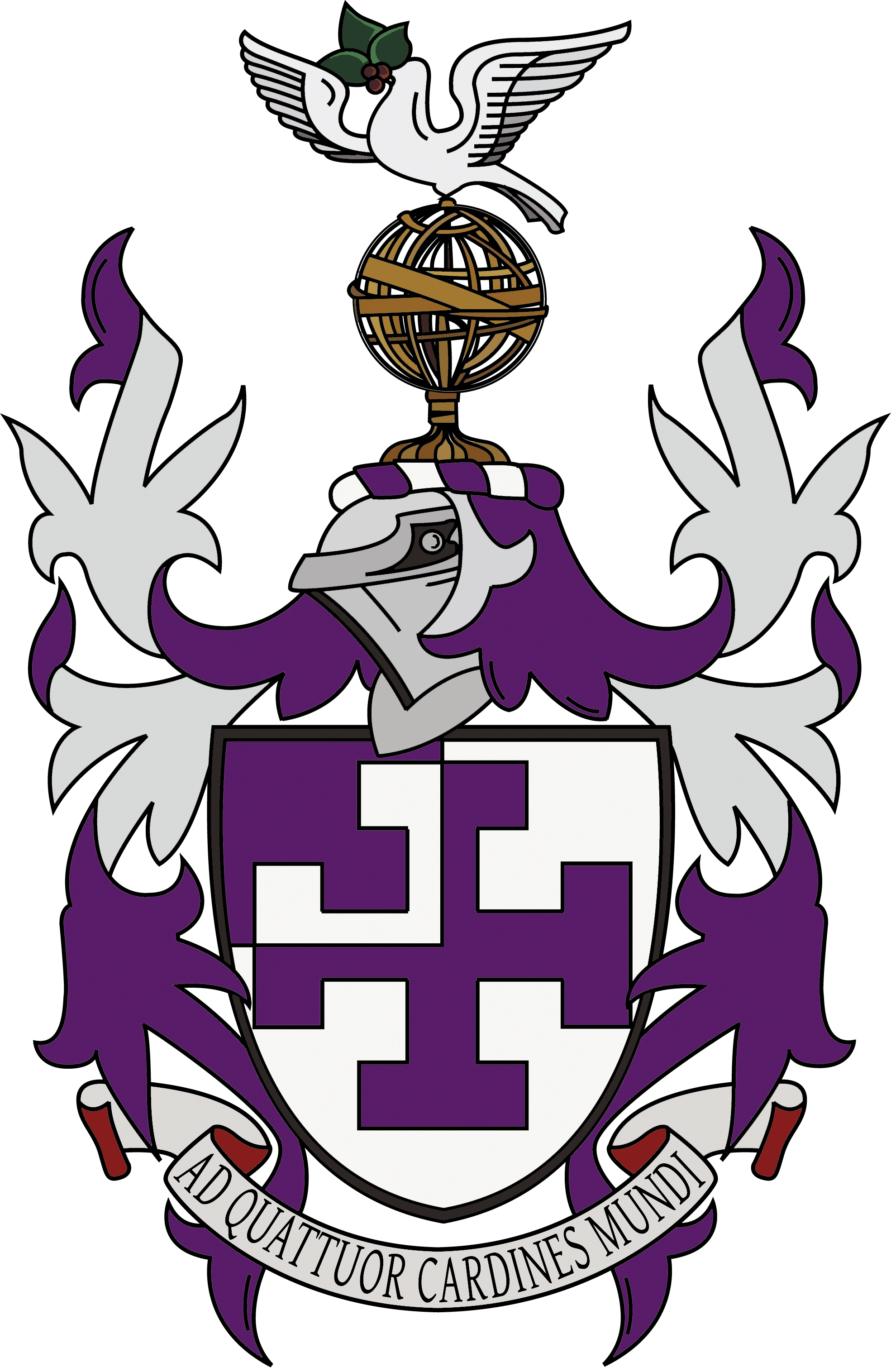 Coat-of-arms of St Cross College, Oxford, traced by Hubert Bastide.